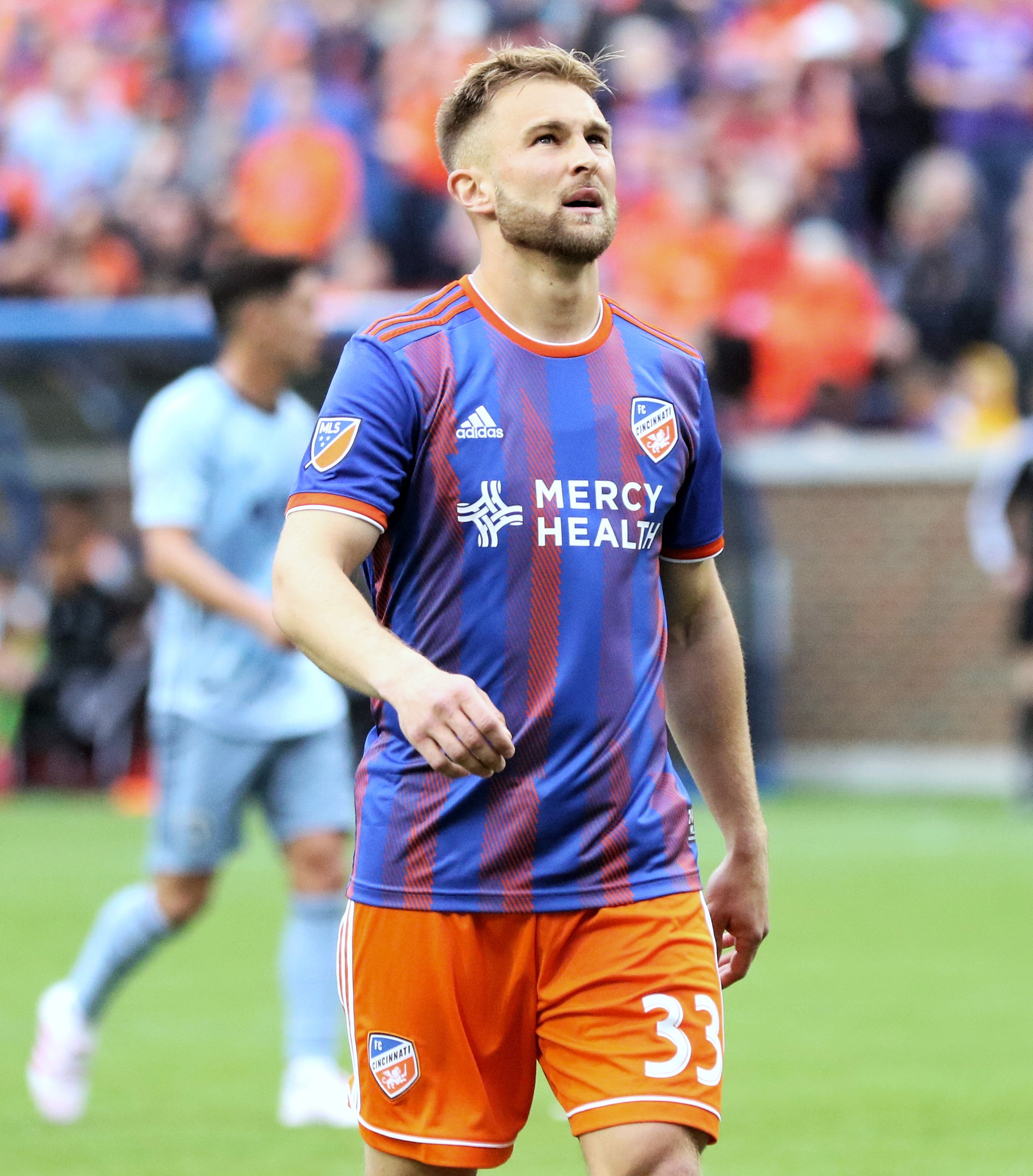 Caleb Stanko playing for FC Cincinnati at the Major League Soccer on April 7, 2019.